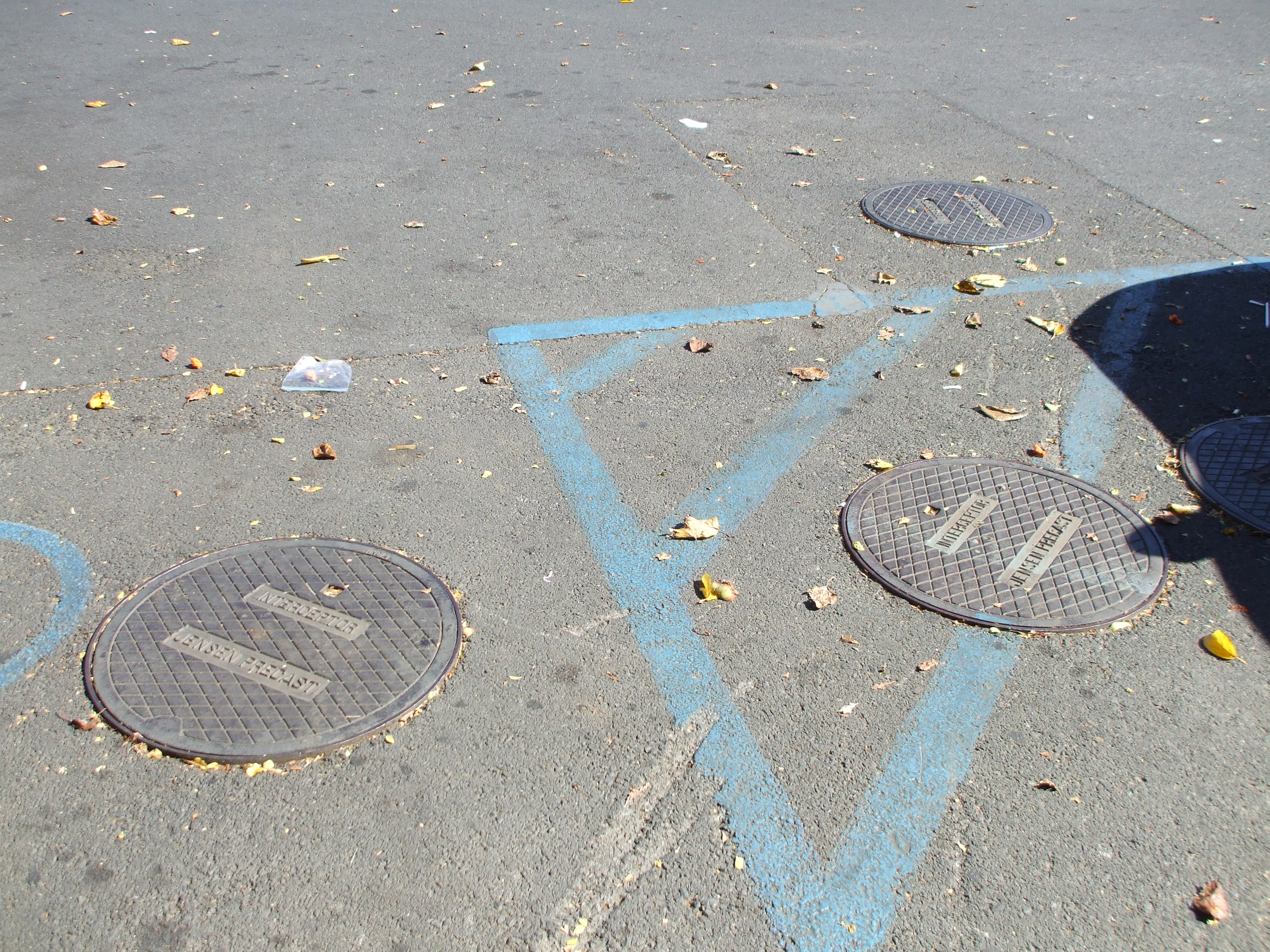 In-Ground Grease Trap outside of a Casual Diner establishment sunk into a Parking Lot. (Jensen Precast Grease Interceptors)